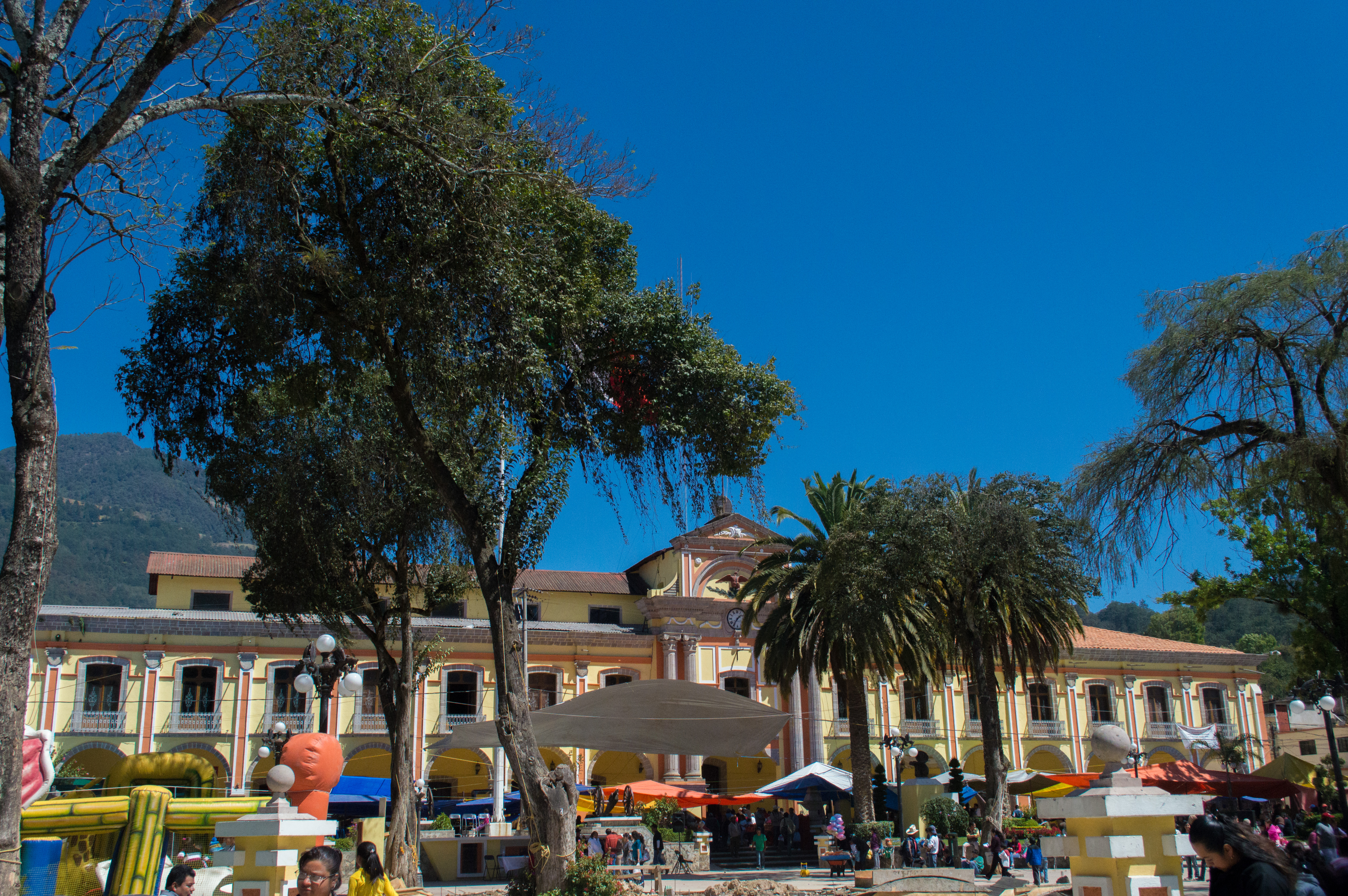 Tetela de Ocampo Town Hall, as experienced in Sundays, which is market day.